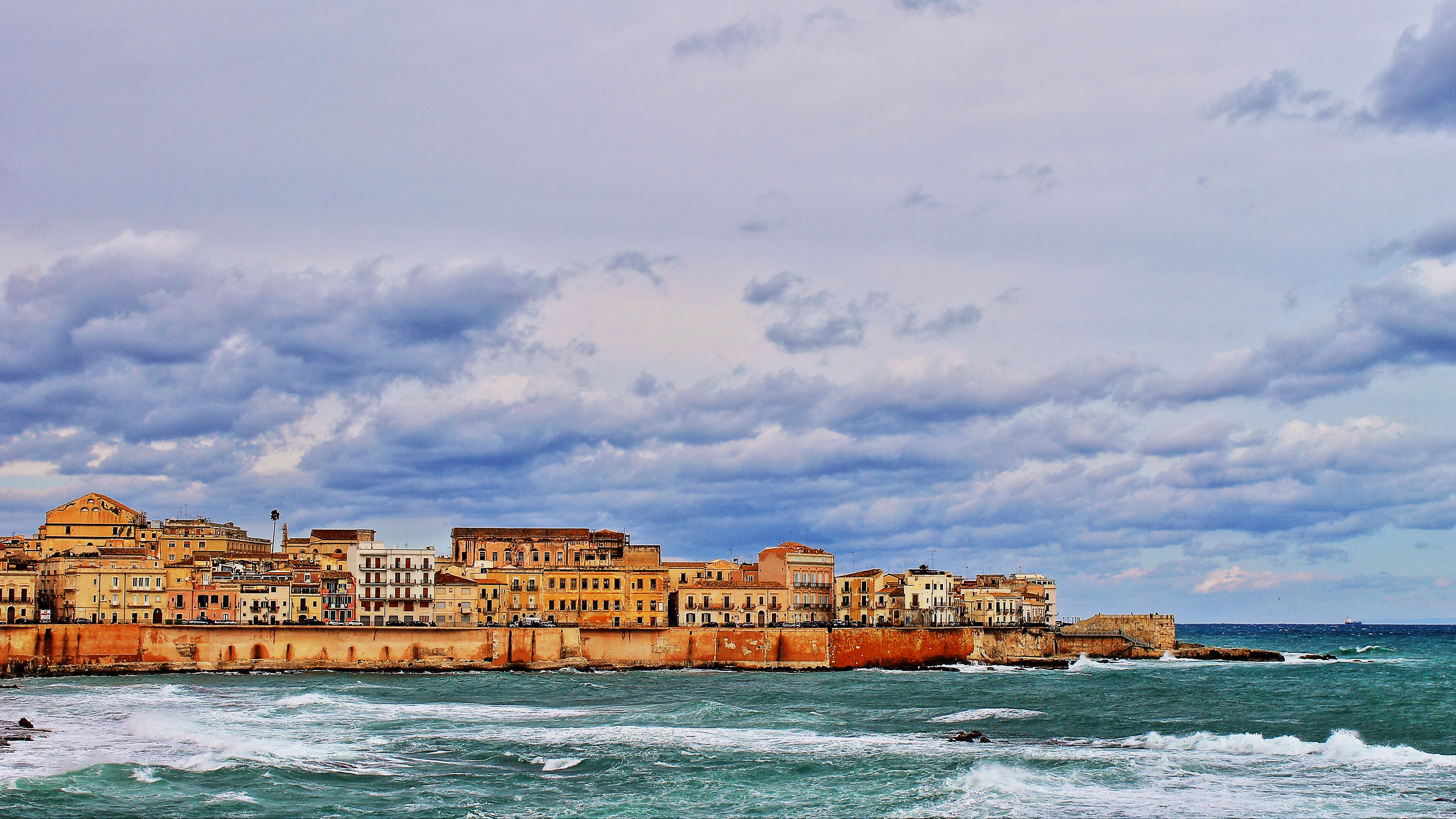 Syracuse and his sea agitated (view of Ortigia)